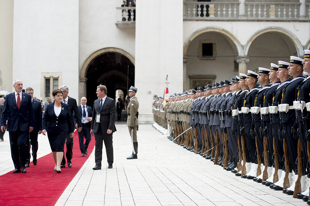 27.07.2016, Kraków | Światowe Dni Młodzieży: premier Szydło przywitała papieża Franciszka oraz spotkała się z pielgrzymami. fot. P.Tracz/KPRM